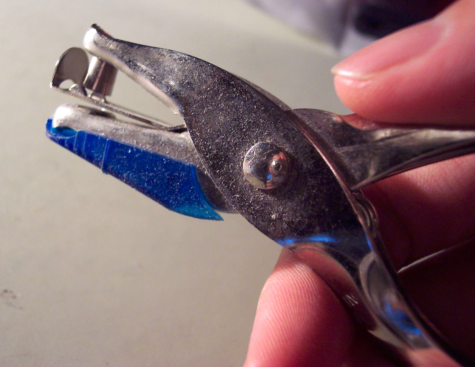 Hole punch with one hole Taken by Enoch Lau on 23 November 2004. As a courtesy, please let me know if you alter this image or this image description page. Original filename was 100_3714.JPG.